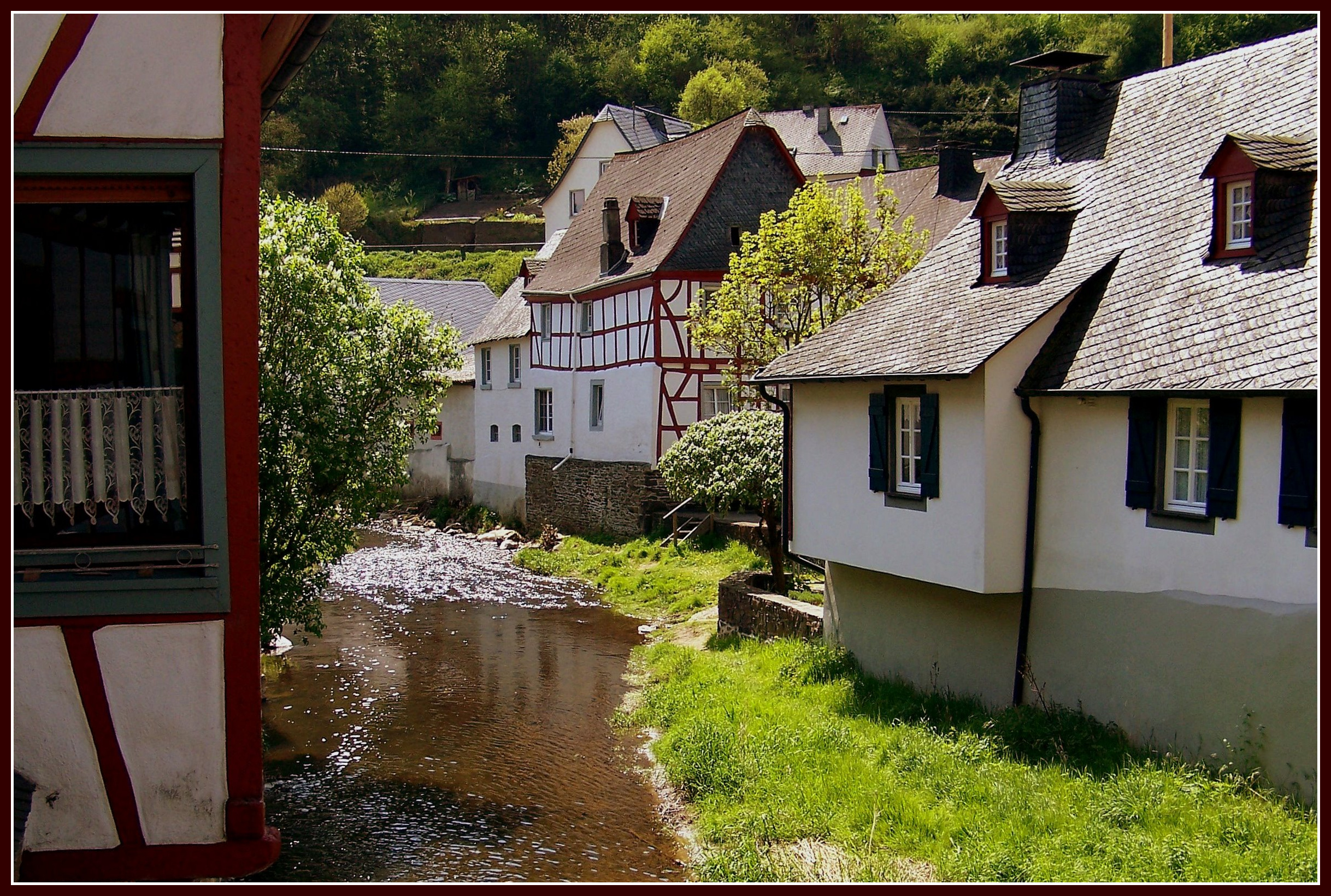 Elzbach bij Monreal